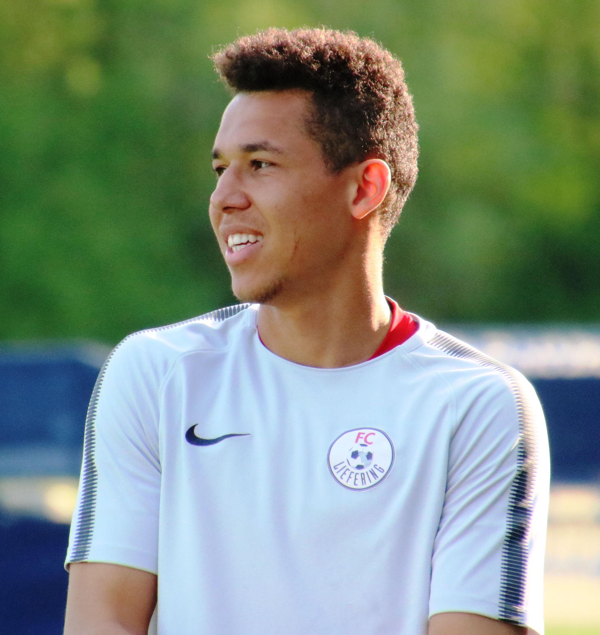 Austria 2nd league league match